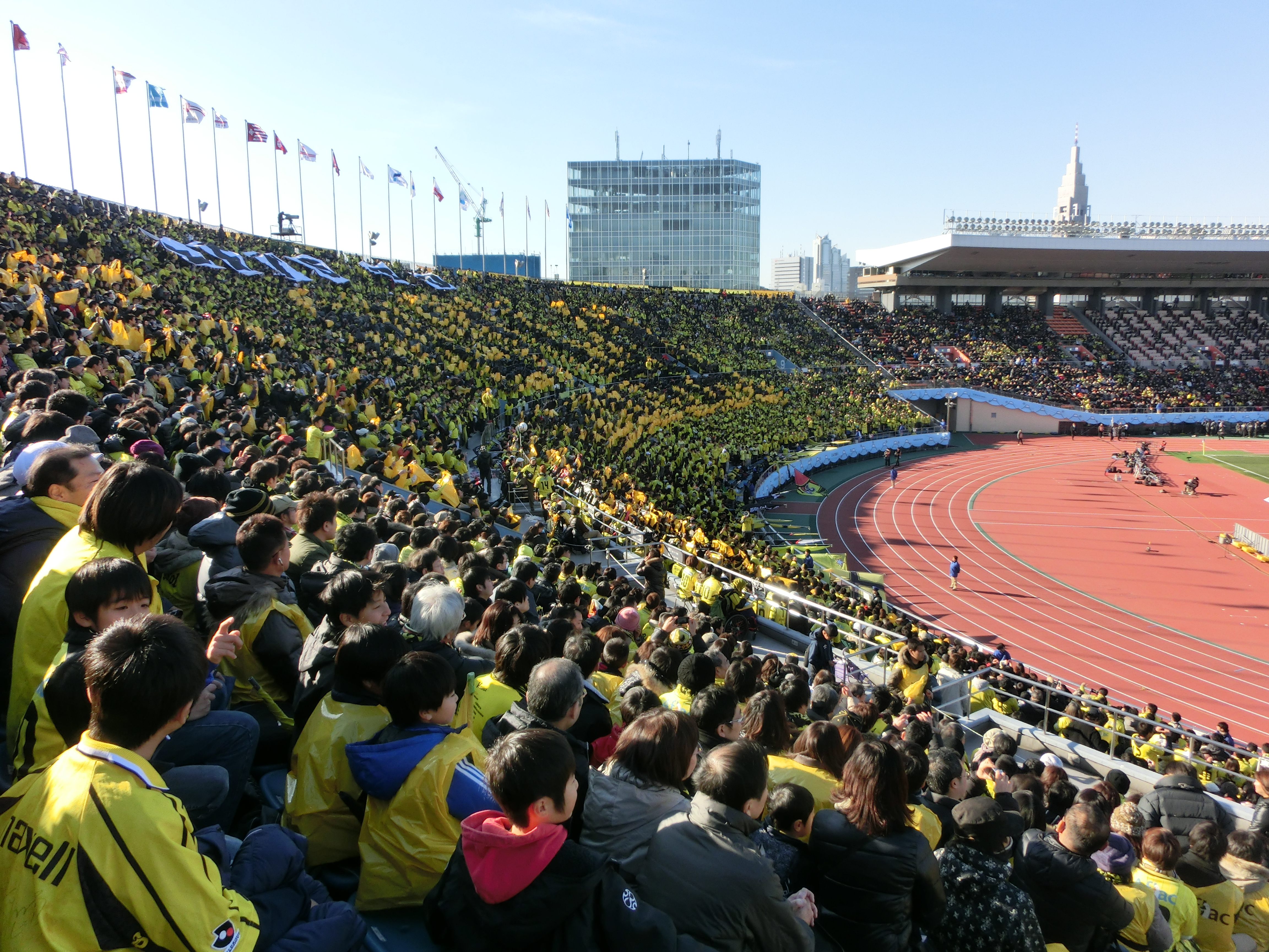 Emperors cup Final in Japan at Jan.1.2013